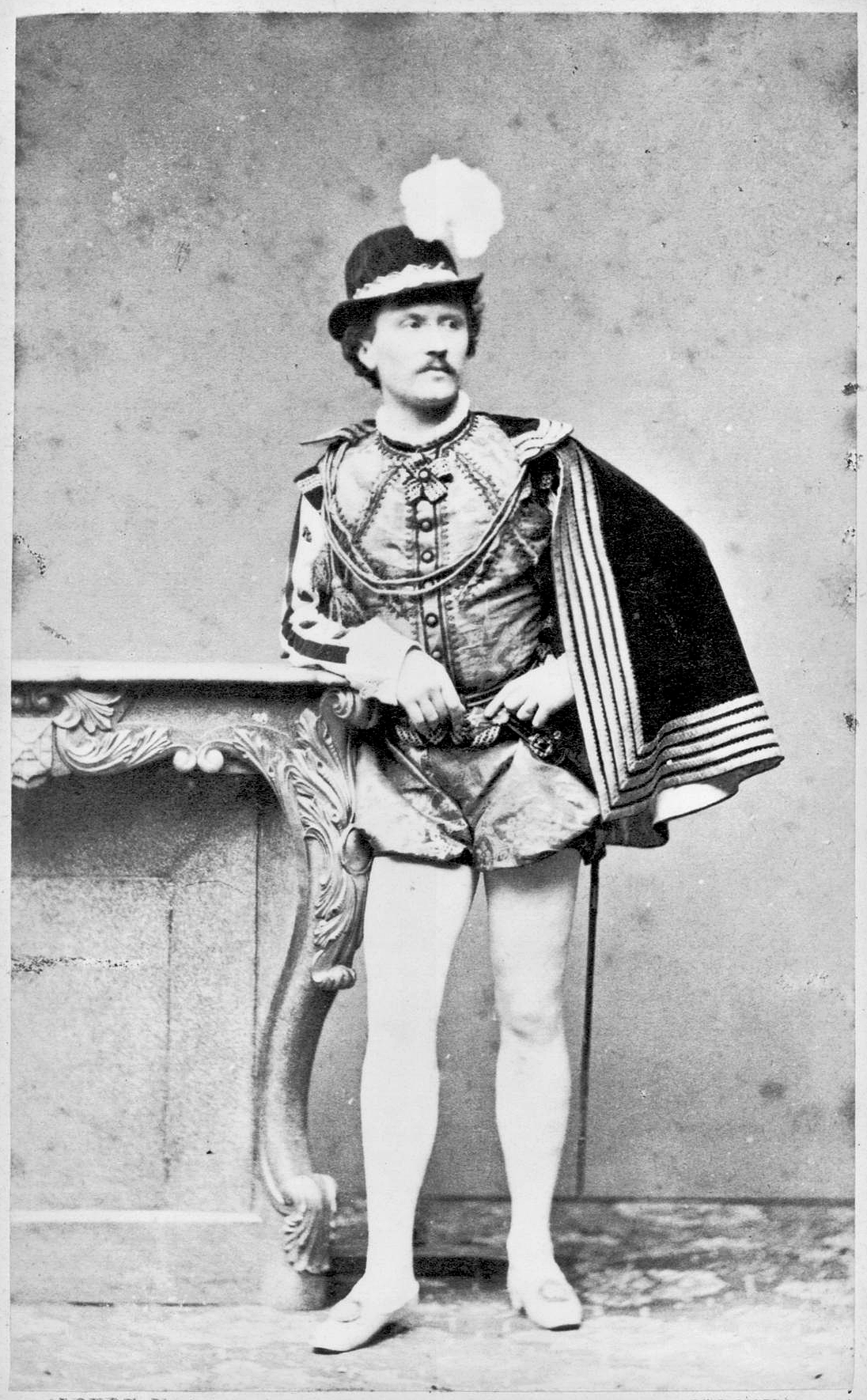 Emil Rohde, bayerischer Hofschauspieler (1839-1913), als Don Carlos